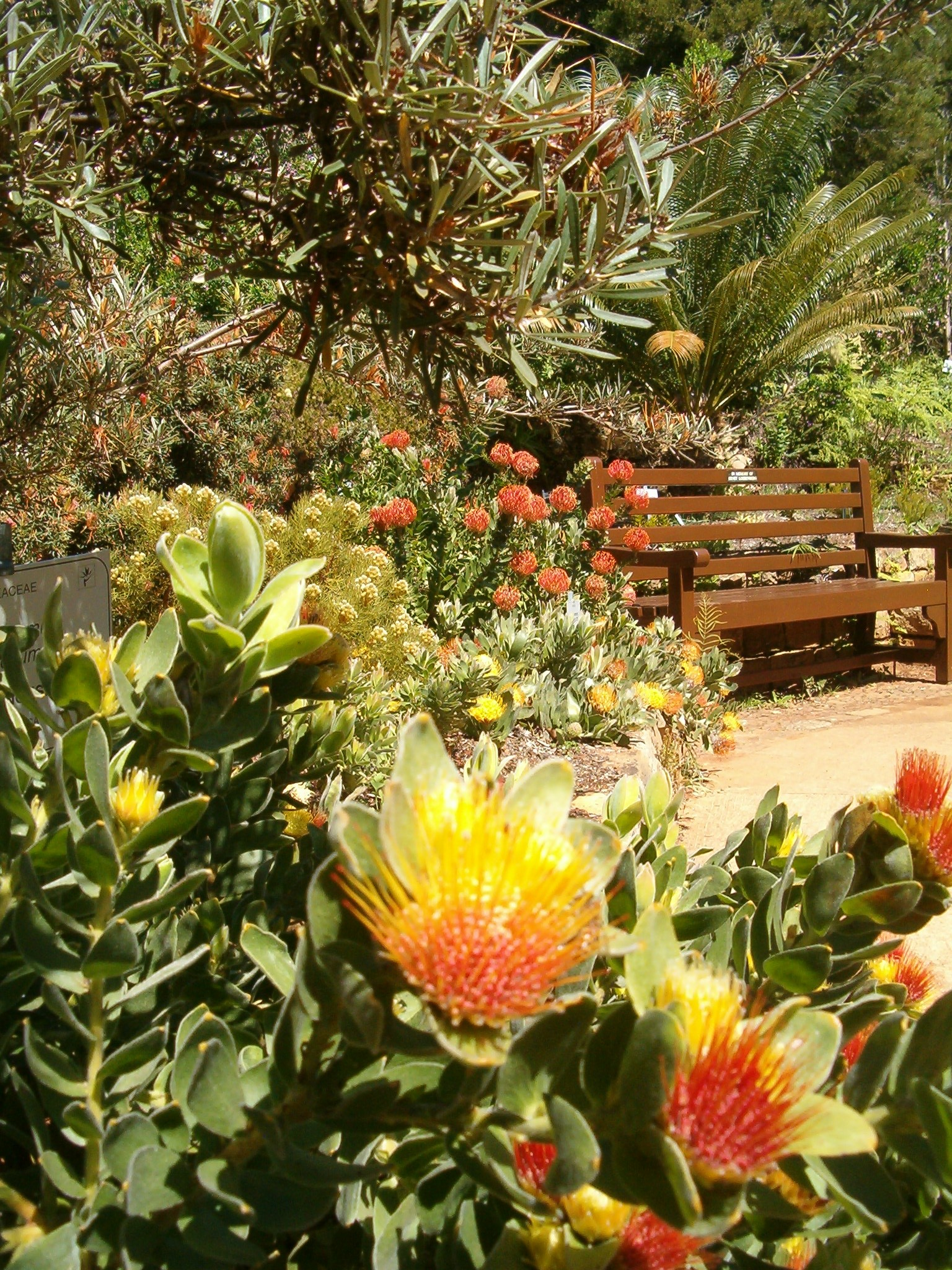 At Kirstenbosch National Botanical Gardens Species Leucospermum oleifolium